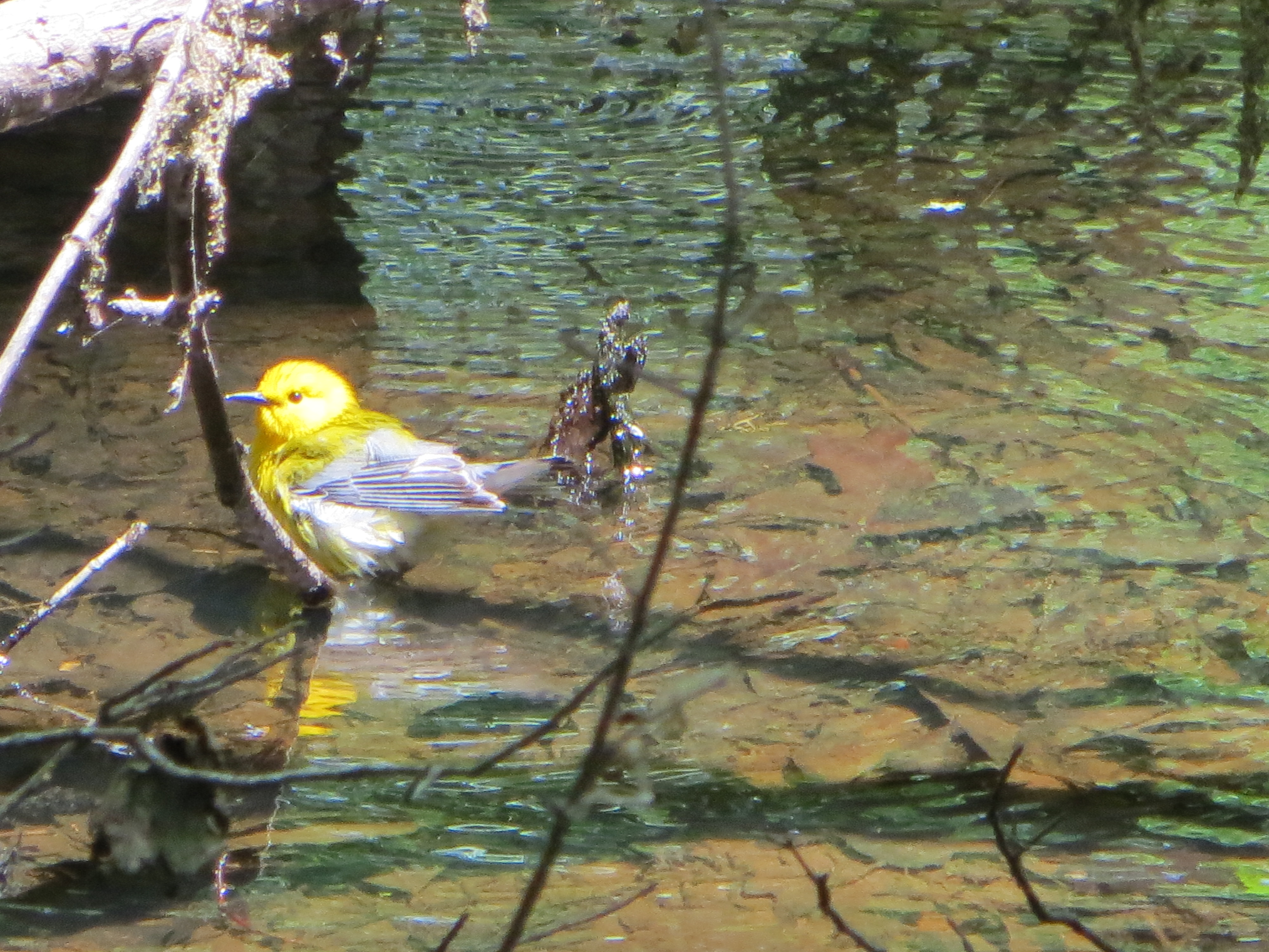 Protonotaria in Francis Beidler Forest